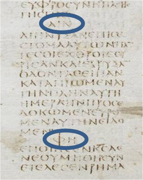 The Peh/Ayin Order in the Book of Lamentations on Codex Sinaiticus.